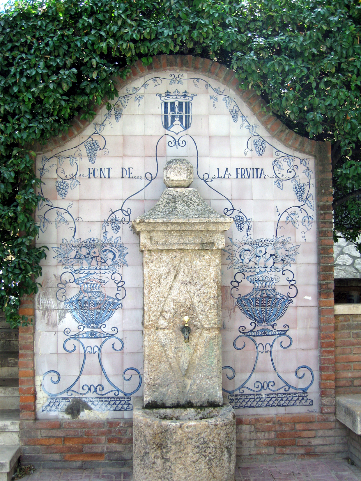 Font de la Fruita well in Montblanc in the province of Tarragona (Catalonia).